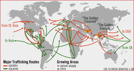 CIA Map of International illegal drug connections.